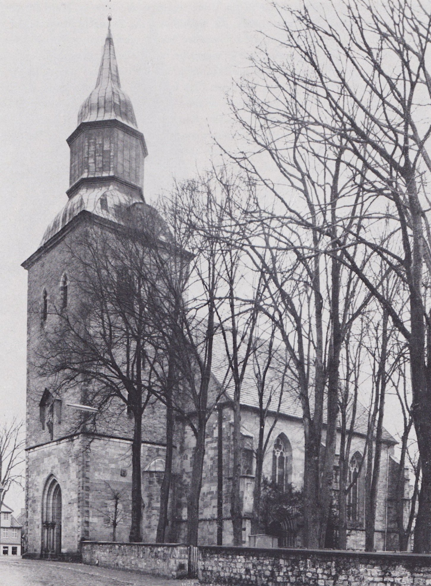 own file